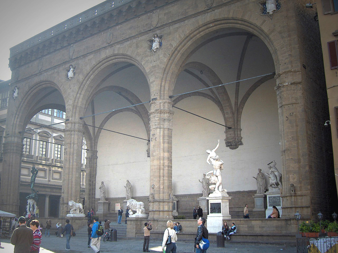 General view on the Loggia dei Lanzi, Florence, Italy Own photo - photo made on 12 October 2005